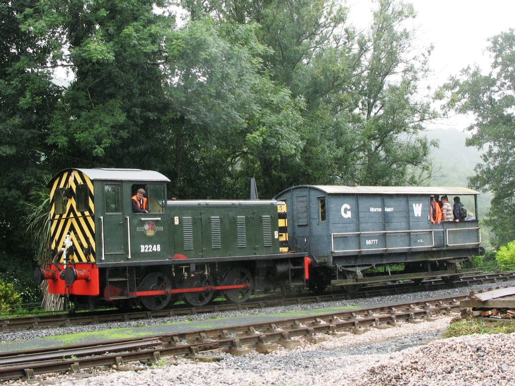 Class 04 shunter D2446 propelling former Great Western Railway brake van 68777 at Staverton on the South Devon Railway, England.